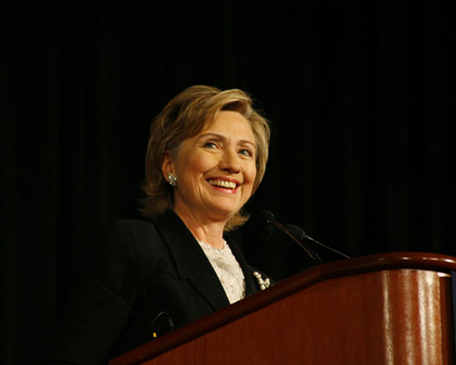 Hillary Rodham Clinton speaking in Chicago